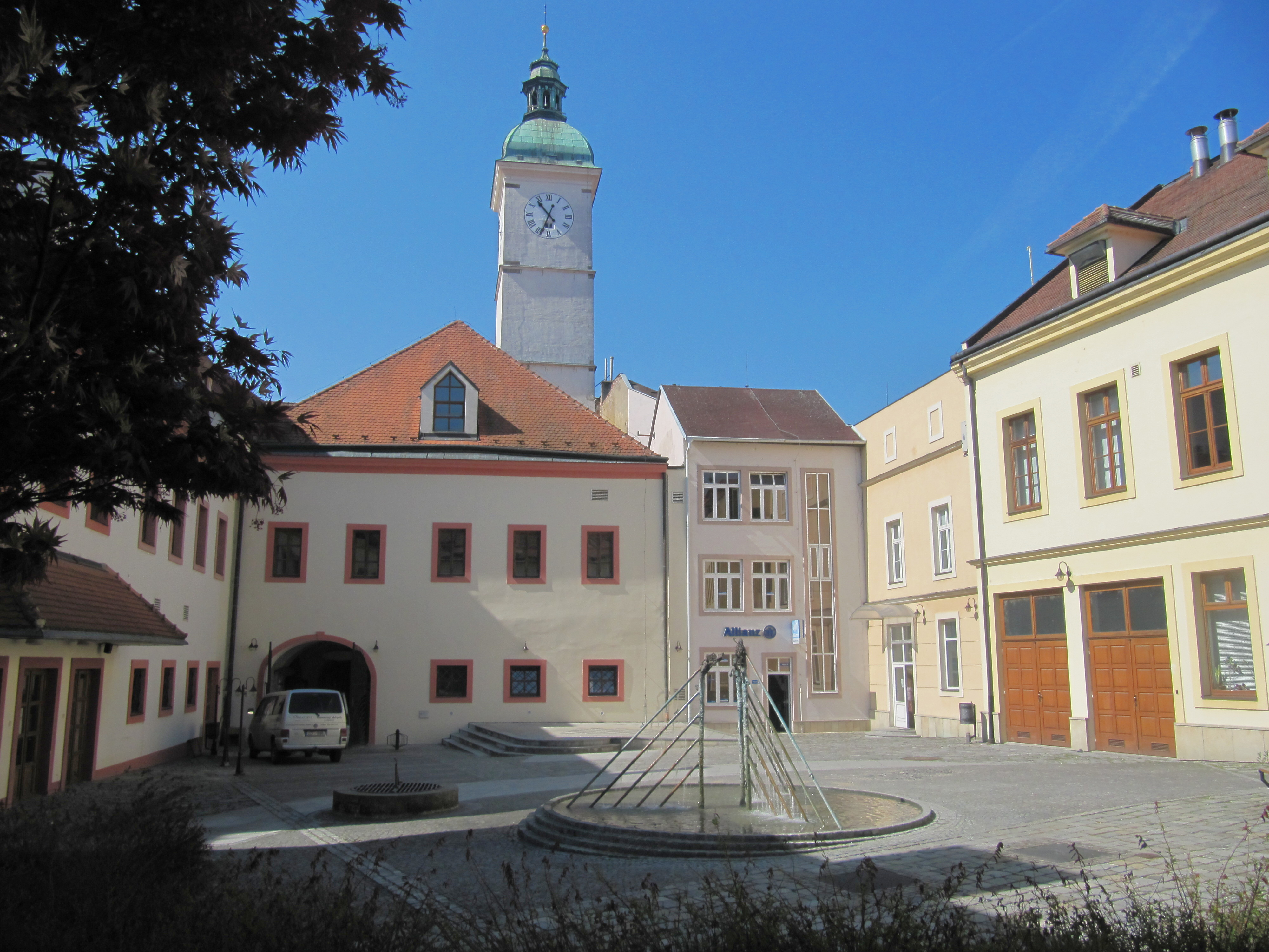 Uherské Hradiště, Czech Republic. Old Town Hall, the passage from the street Františkánská.